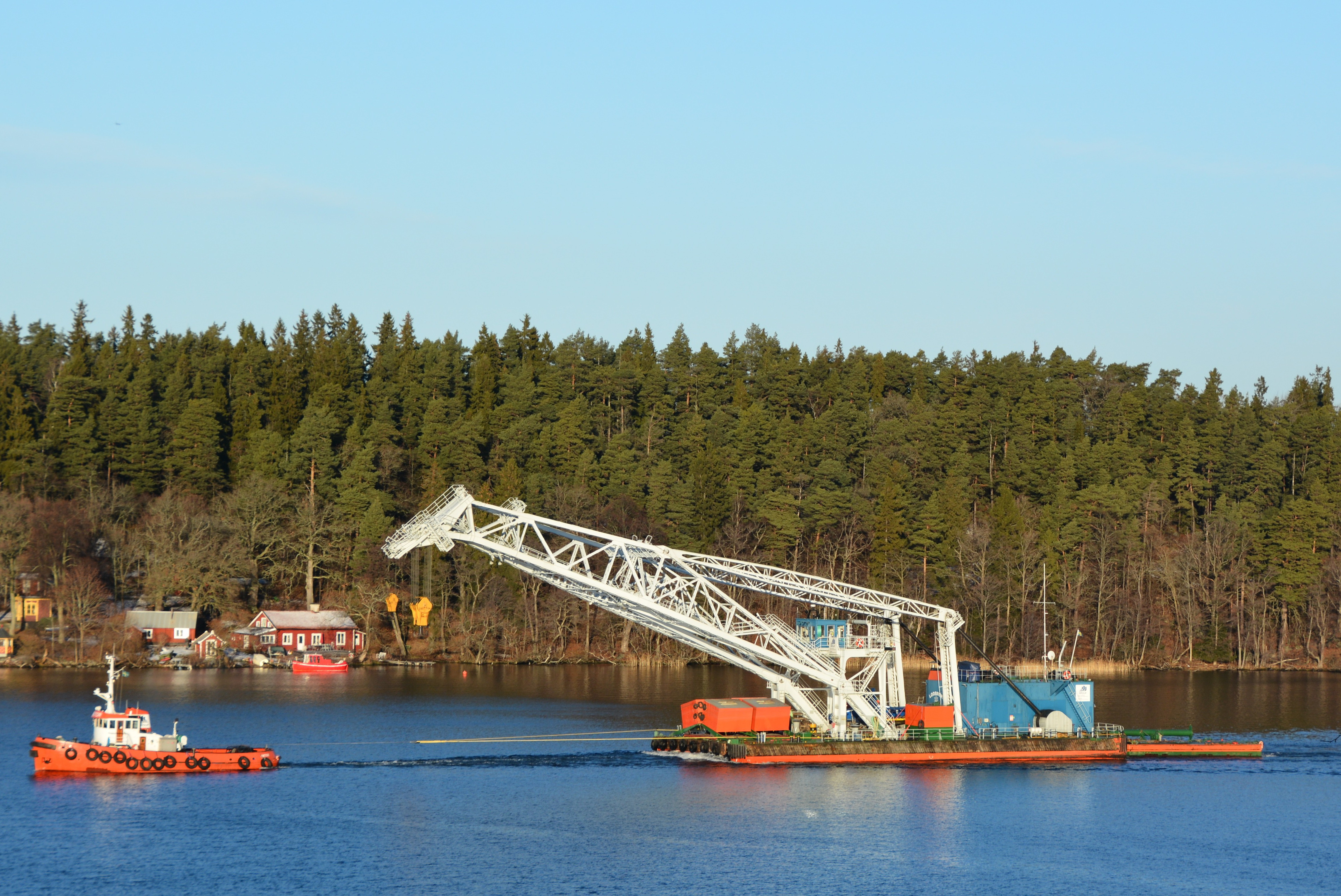 Lodbrok bogseras på Mälaren utanför Björnholmen